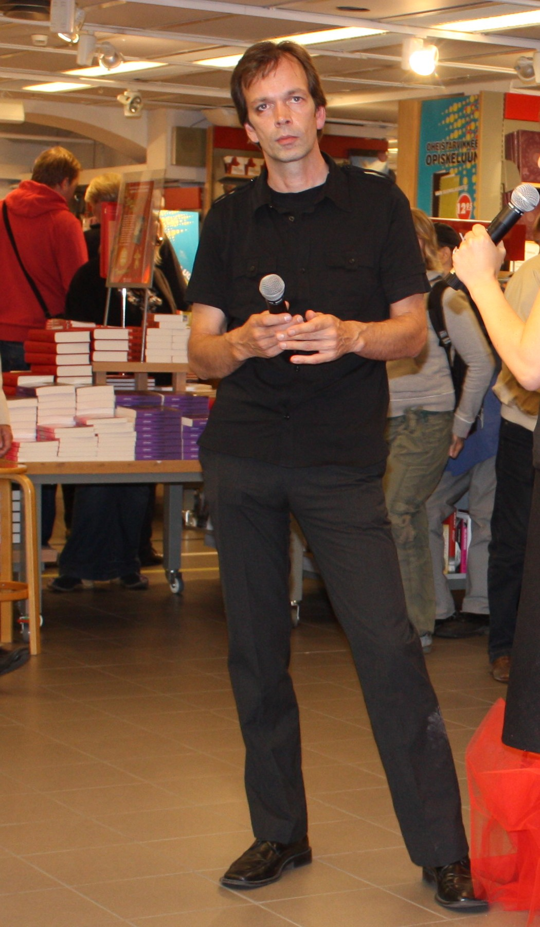 Finnish writer Jaska Filppula interviewed at a book store on The Night of The Arts in Helsinki 2009